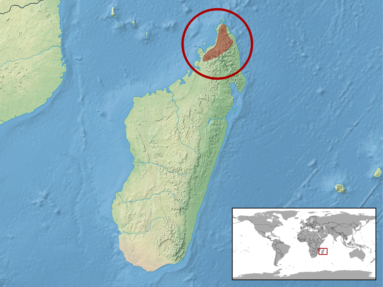 geographic distribution of Brookesia ebenaui (Native: Madagascar)